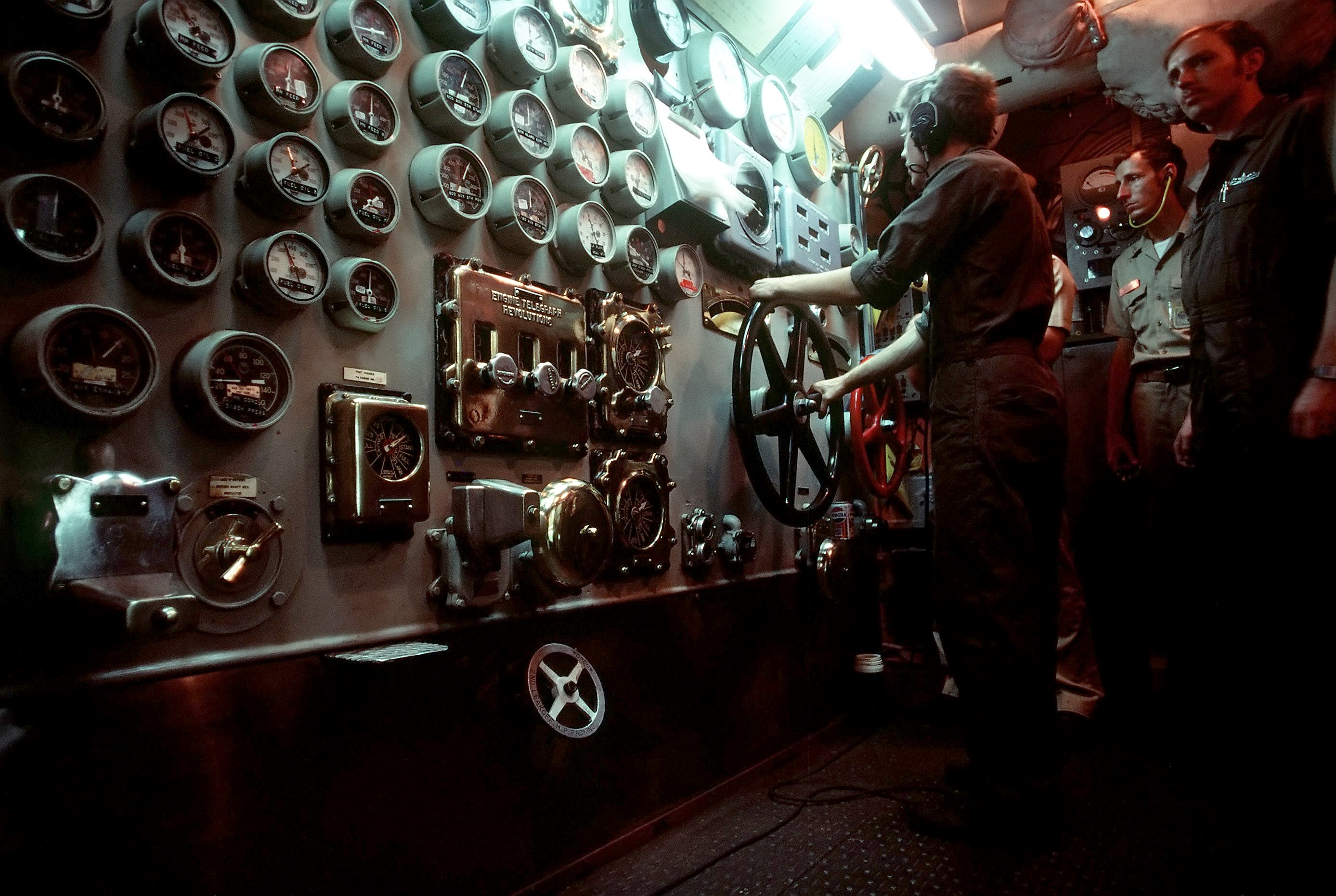 A crewman operates the ship's throttle in the main engine room aboard the USS NEW JERSEY (BB 62). Behind him is the engine oil inspection station. The NEW JERSEY, after recently completing renovation and modernization, is undergoing sea trials prior to reactivated in January 1983.